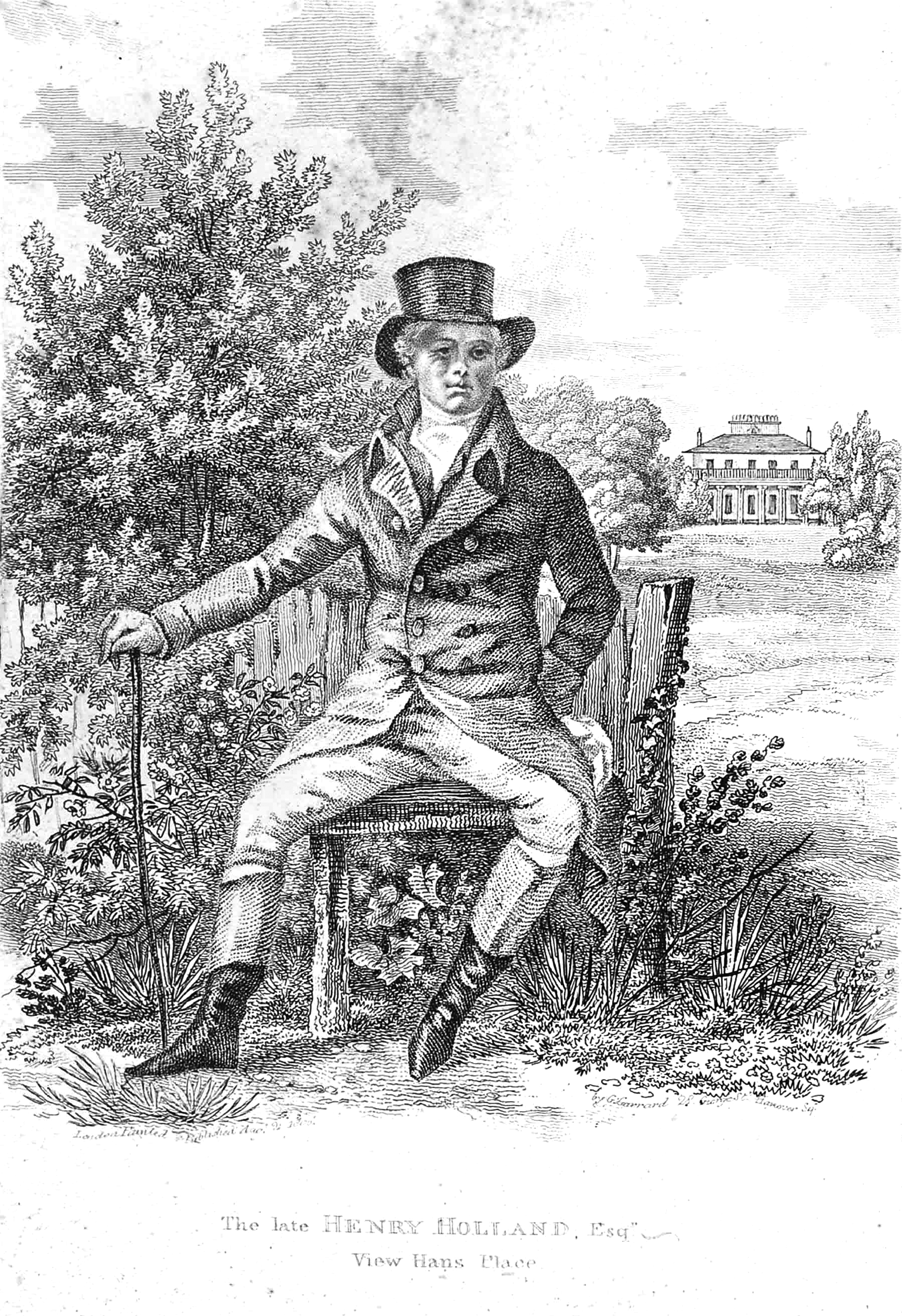 Portrait of architects: The late Henry Holland, Esq. View Hans Place